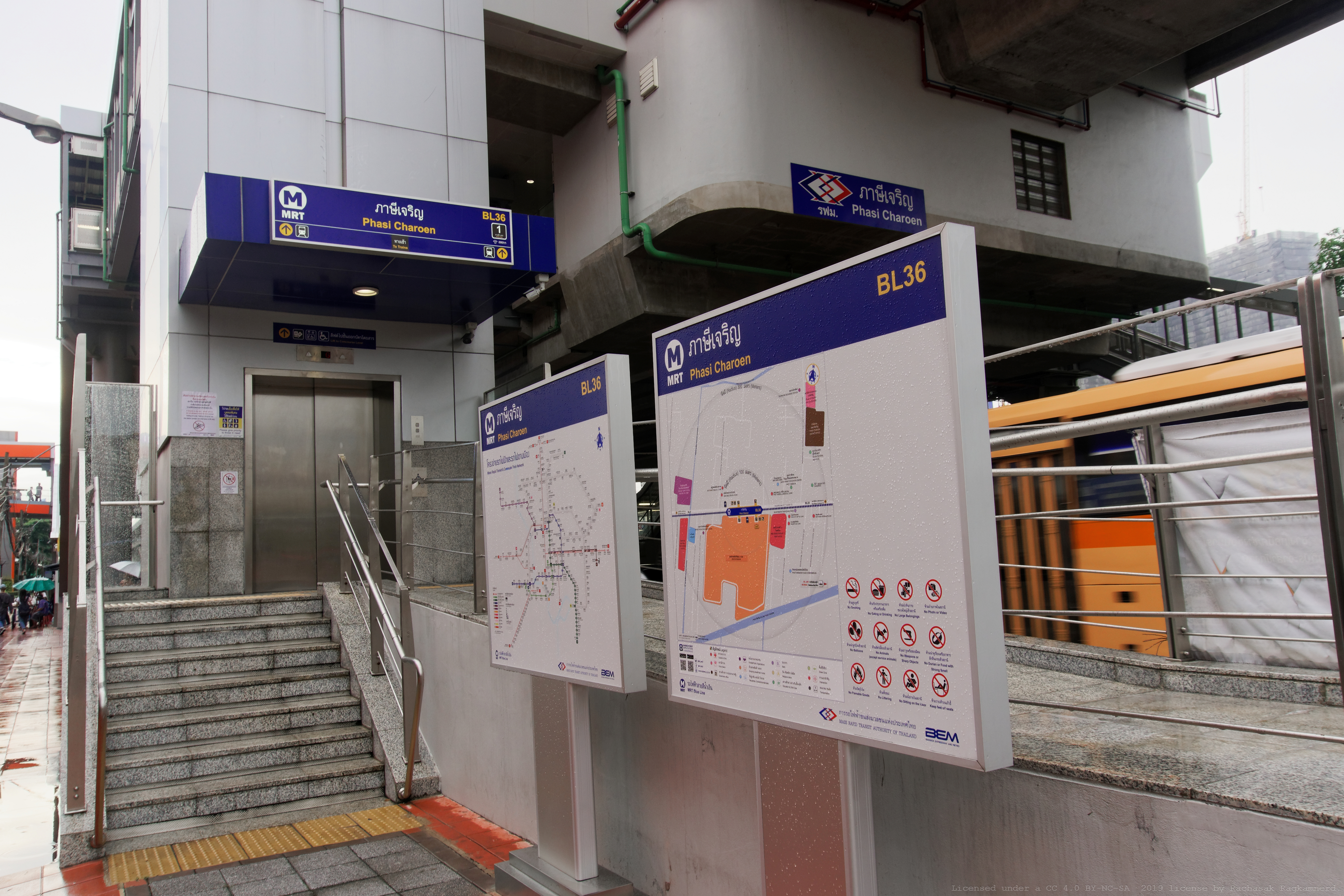 MRT Phasi Charoen station: Exit 1 with information signs about nearby places and the metro's network map.